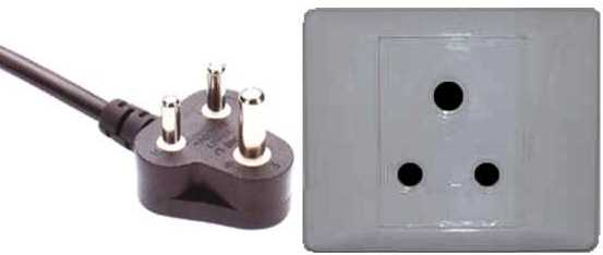 Type M plug. See Mains power plug for full information.